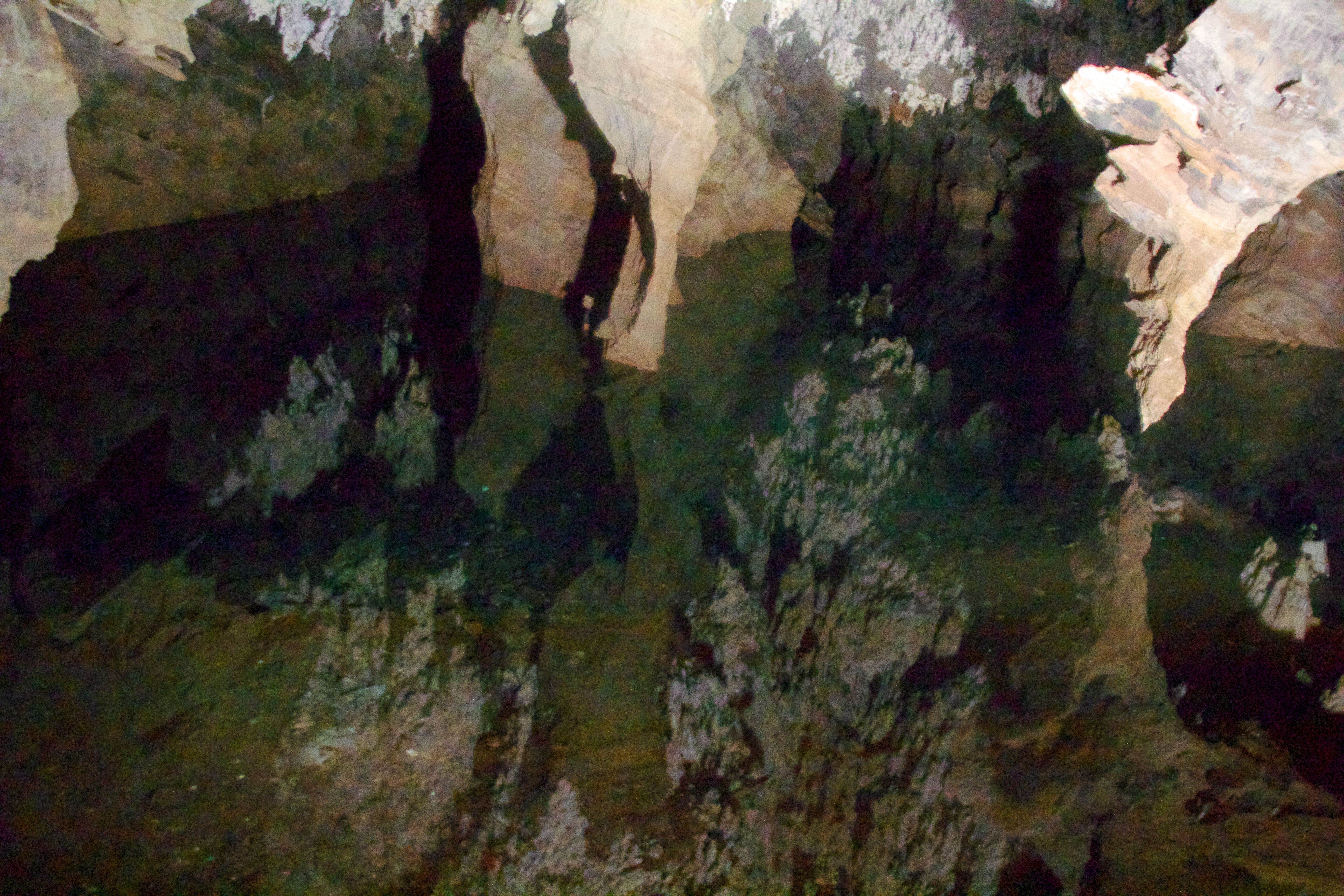 In the Sterkfontein caves. Underground lake.